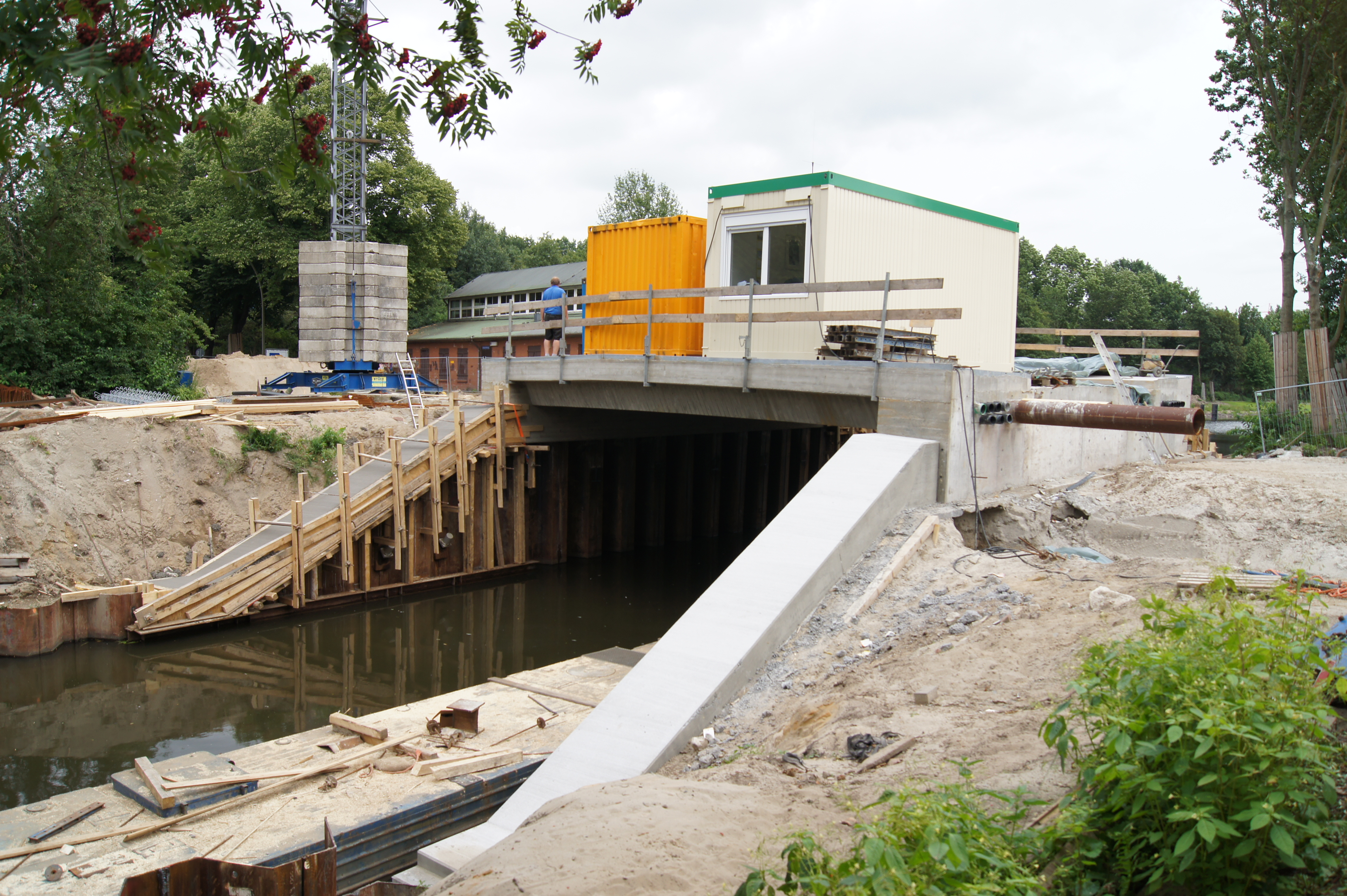 Hamburg (Wilhelmsburg), Germany: Bridge of the Rotenhäuser Straße over the Rathauswettern